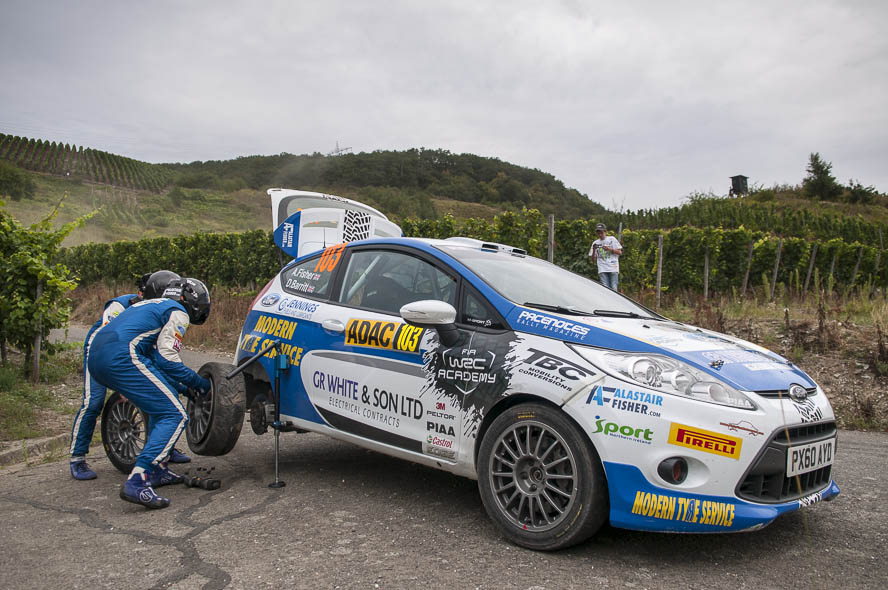 Rally Germany 2012 ADAC Rallye Deutschland,Alastair Fisher,Daniel Barritt,Ford Fiesta R2,Moselland,Motorsport,Rally,Rallye,Rallye Deutschland,SS5,WP5,WRC